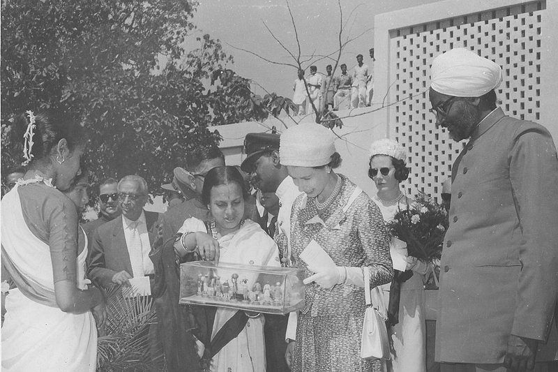 Pic courtesy DSP PR Source: Pic taken by the Public Relations department of Durgapur Steel Plant. No copyright on this photograph. The PR department supplies and allows photographs to be published.